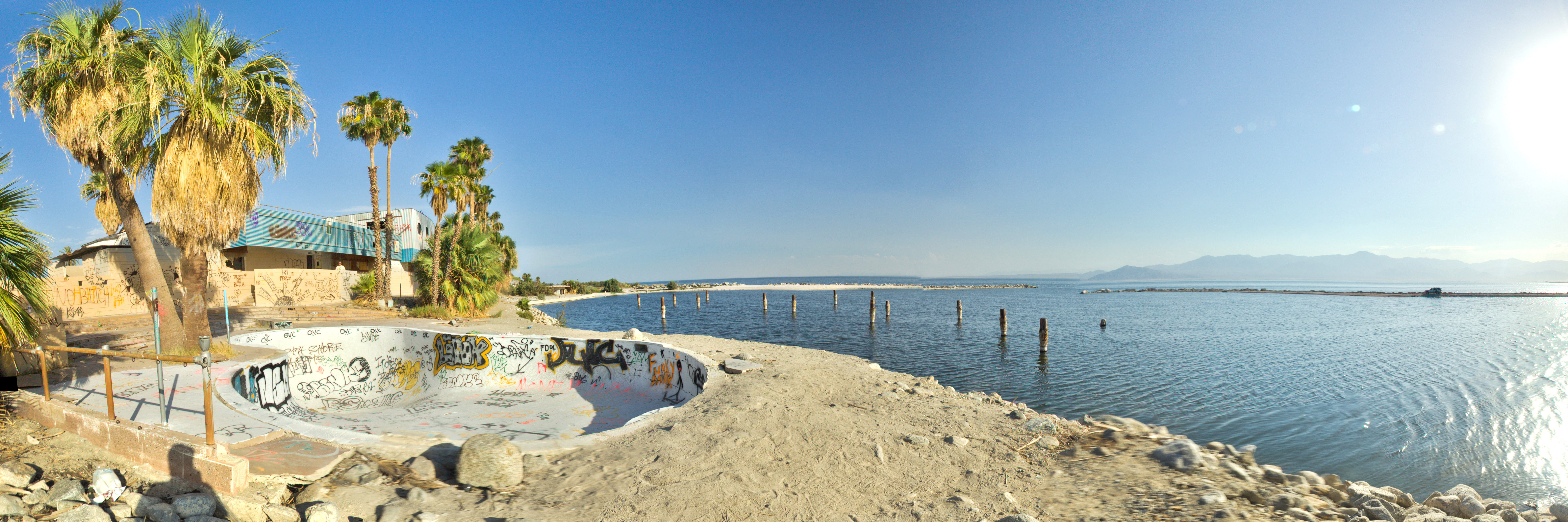 Salton Sea Yacht Club Ruins